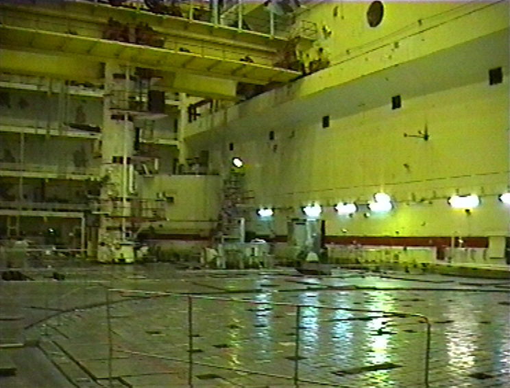 Reactor hall #1, Chernobyl nuclear power plant, Ukraine.